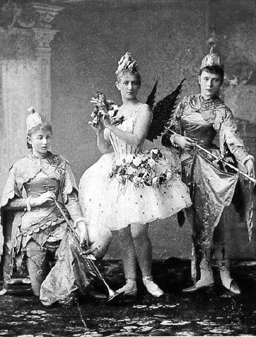 Photo taken by an unknown photographer at the Mariinsky Theatre, St. Peterbsurg, Russia of the Ballerina Anna Johansson with 2 unidentified pages in the ballet The Sleeping Beauty, 1892. Photo comes from my own collection and was scanned by me, Mrlopez2681.